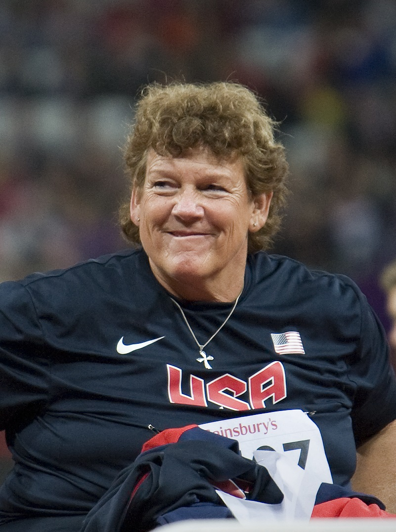 US Paralympic athlete Angela Madsen during the shot put (F54/55/56) at the 2012 Summer Paralympics in London.